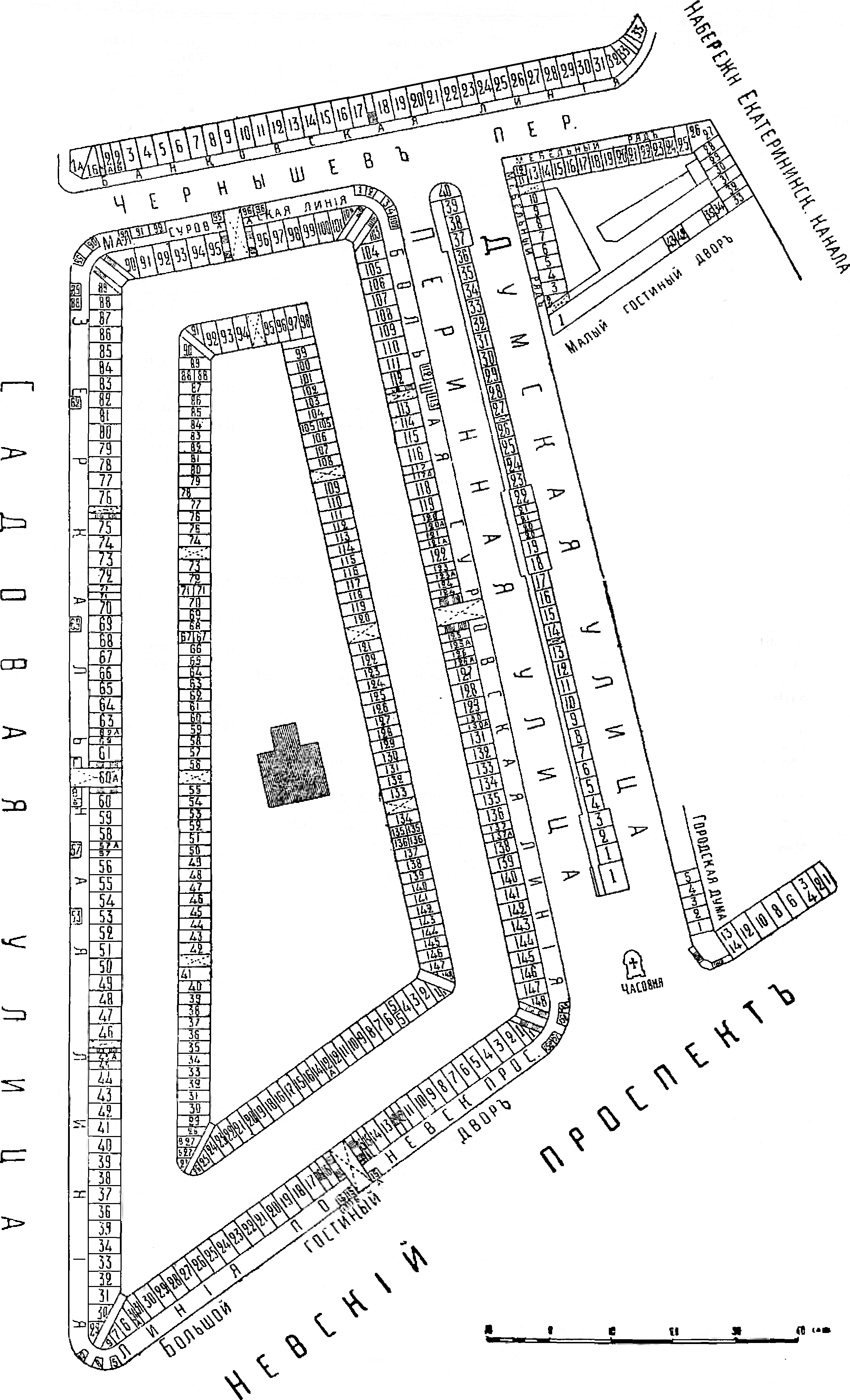 The scheme of trading posts in Gostiny Dvor (Petrograd, Russia), drawn upon the original map published in 1917